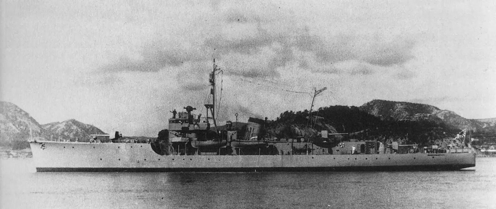 IJN escort ship Manju, November 1943